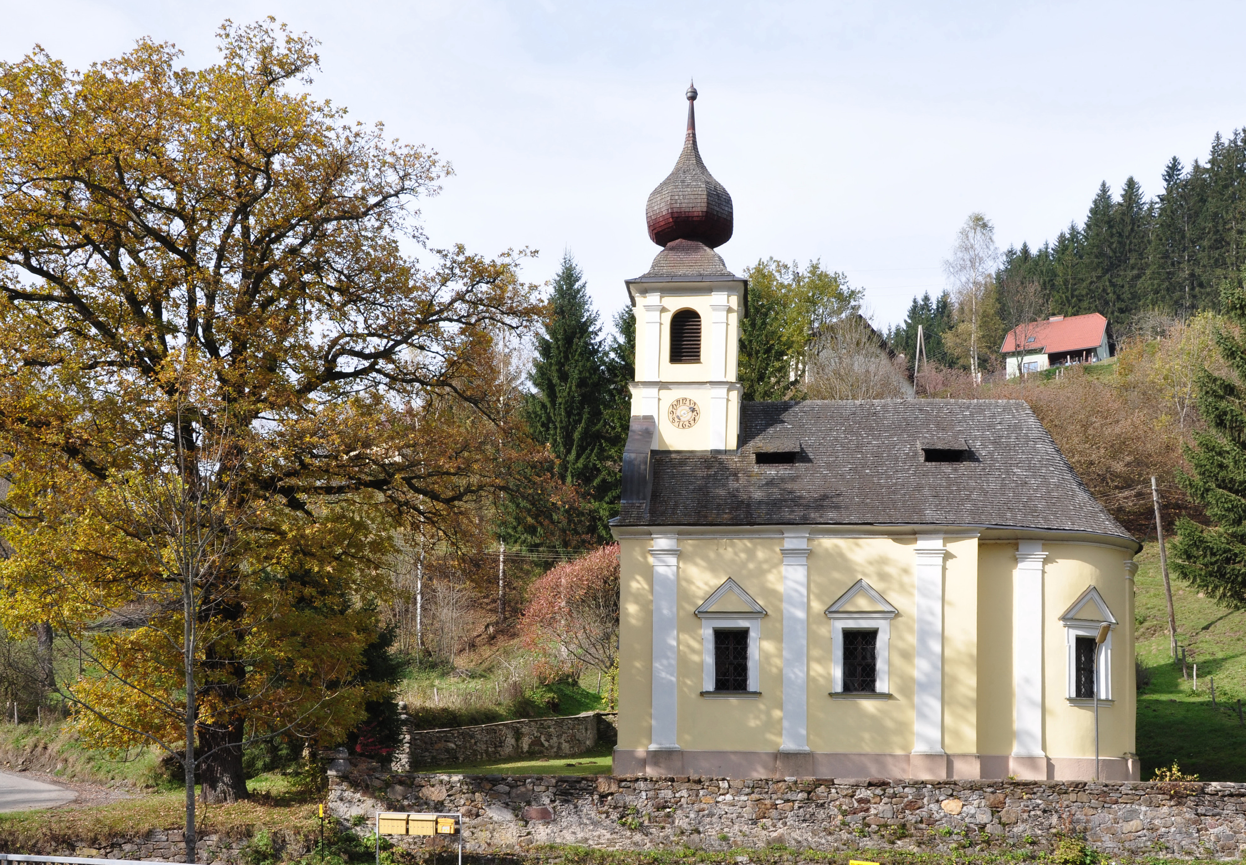 Subsidiary church Holy Johannes Nepomuk at Waldenstein in the cadastral municipality Waldenstein, municipality Preitenegg, district Wolfsberg, Carinthia, Austria